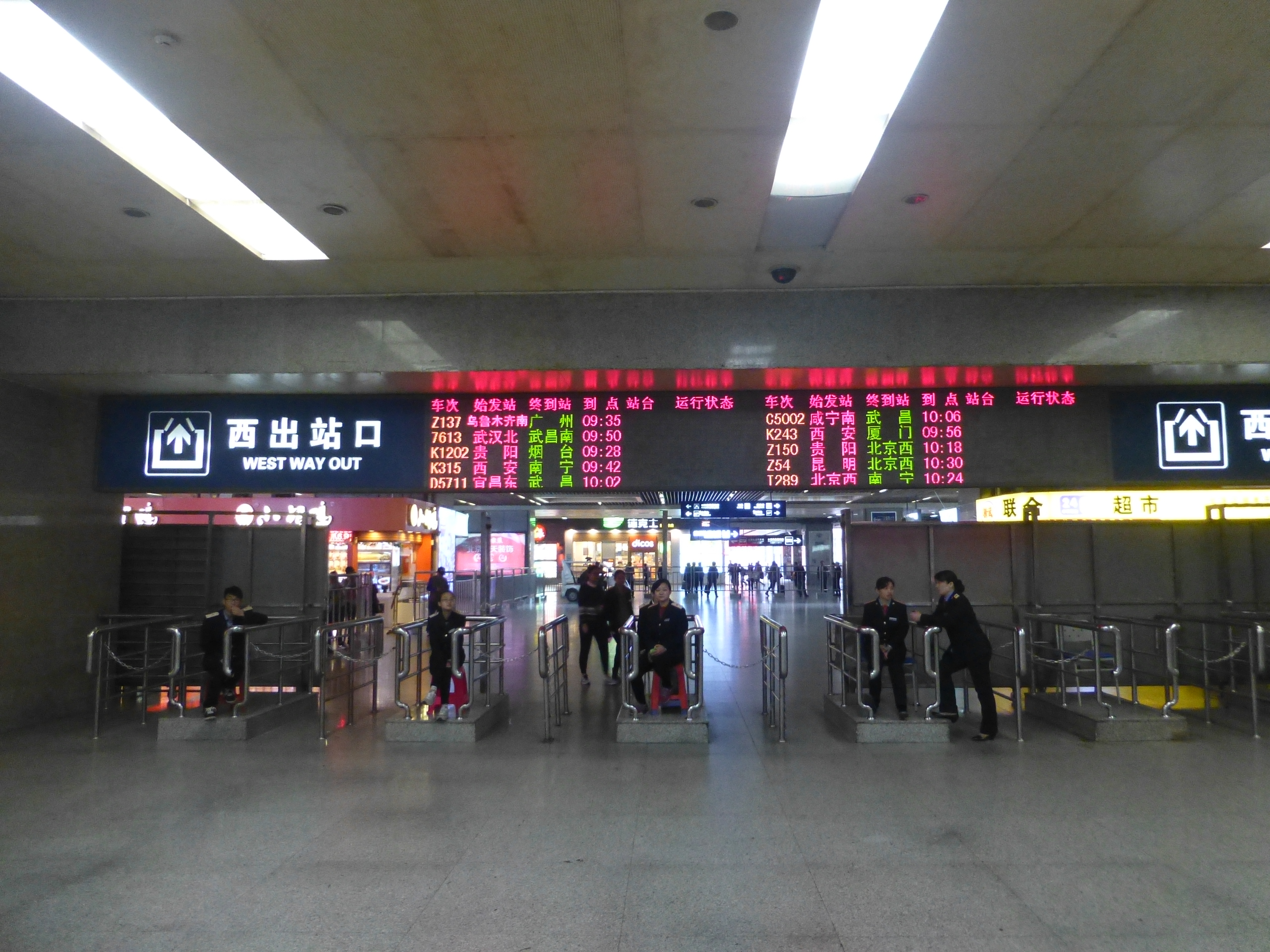 Wuchang Railway Station: exiting from the arrival area. The arriving passengers' tickets are checked at the exit gate. The announcement board lists arriving trains. Note an unusual entry in the list: train 7613, Wuhan North - Wuchang South. This local train is not listed in most online schedule systems; it runs between stations that are mostly freight stations, and don't appear in schedule websites themselves.